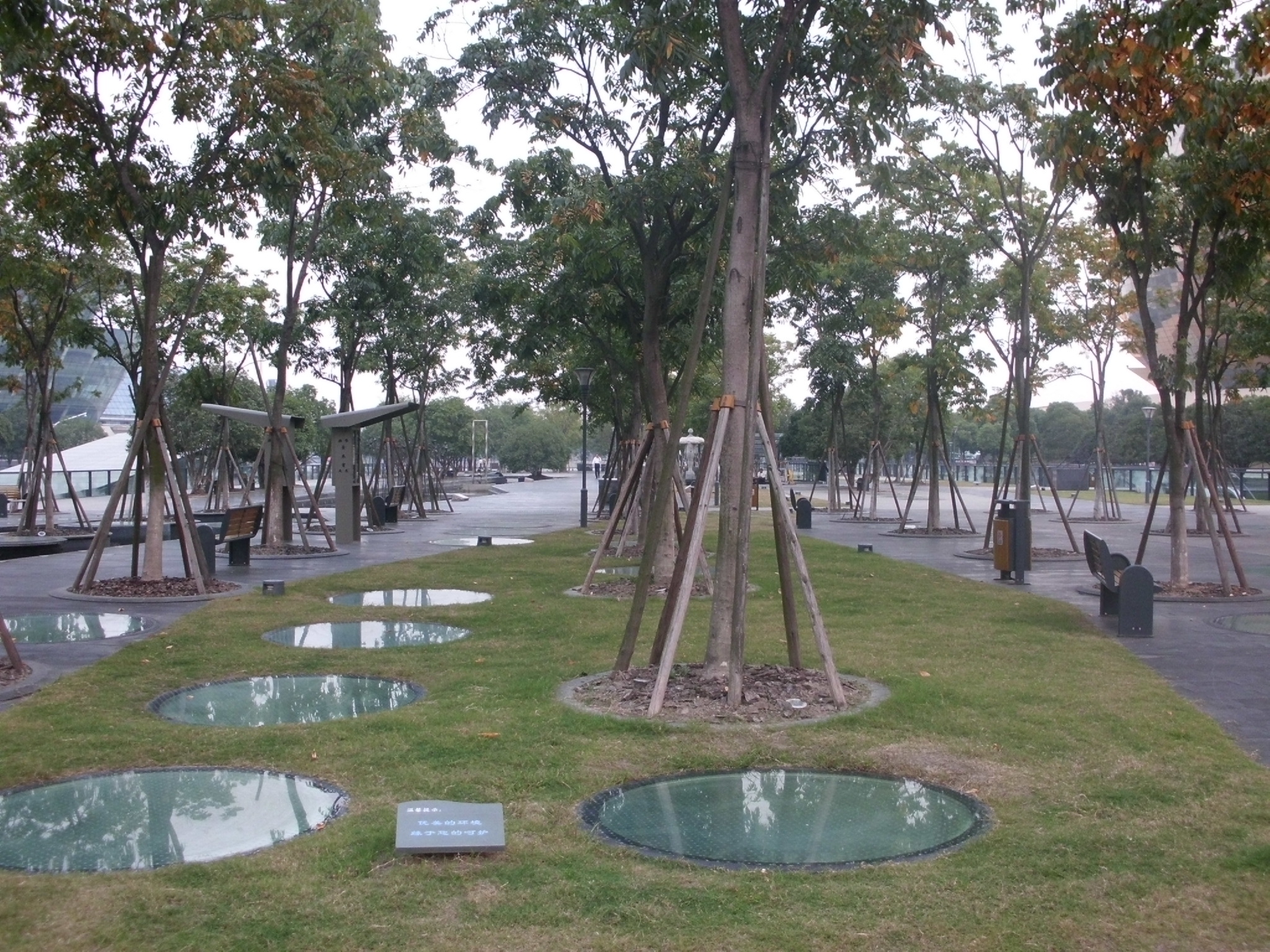 Hangzhou civil square